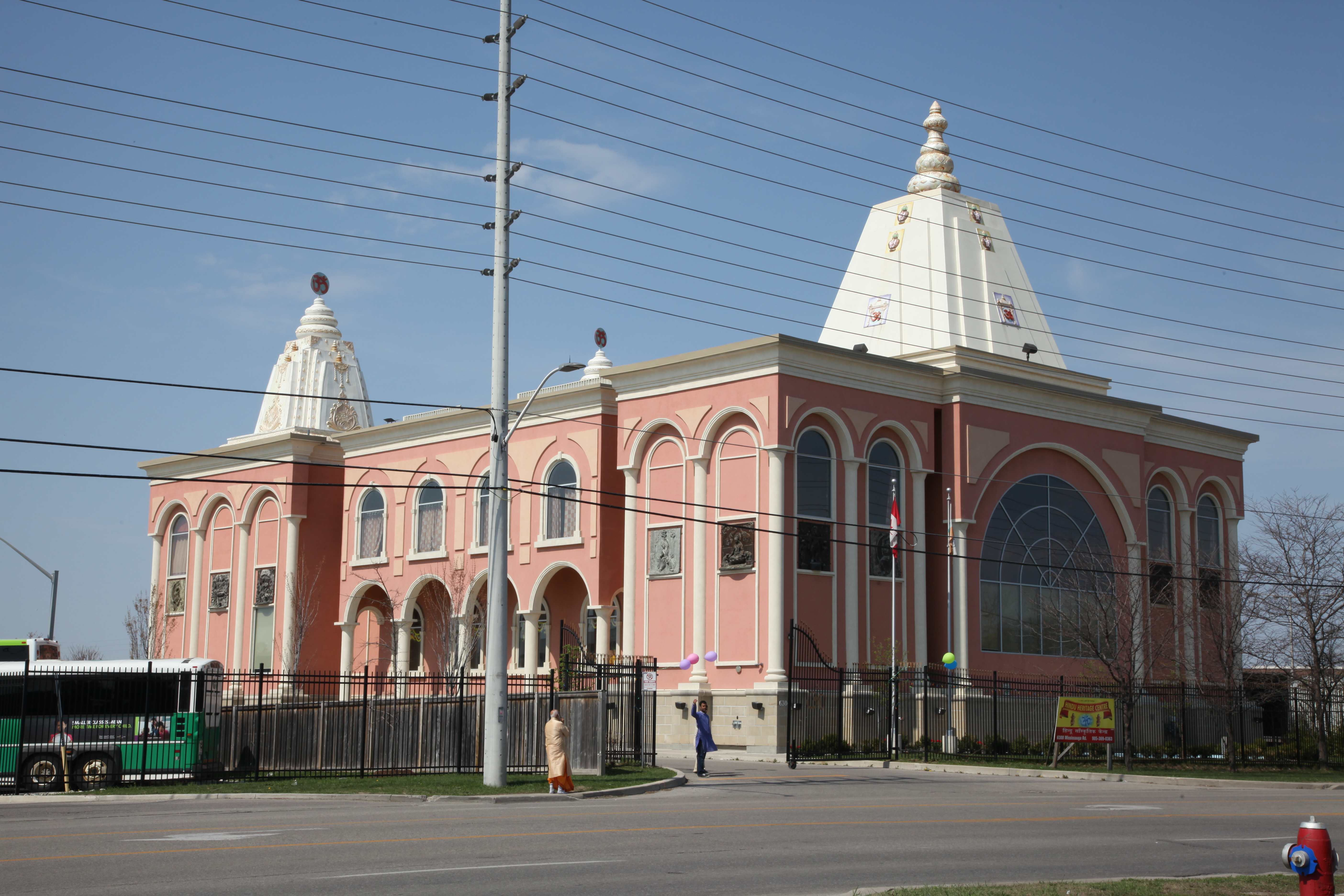 The view of Hindu Heritage Centre from the front. 6300 Mississauga Road, Missisauga, Ontario, Canada.